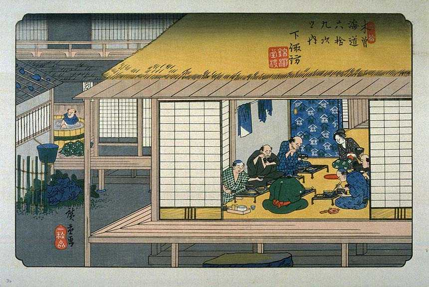 Shimosuwa on the Kisokaido, ukiyo-e prints by Hiroshige